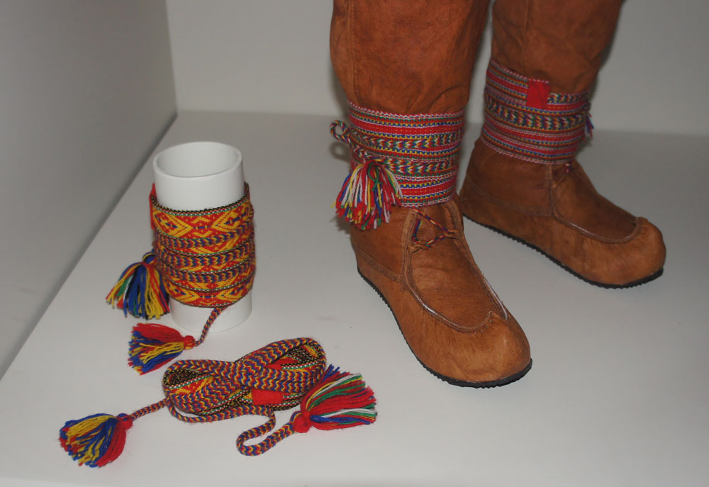 Skoband för män från Jukkasjärviområdet.